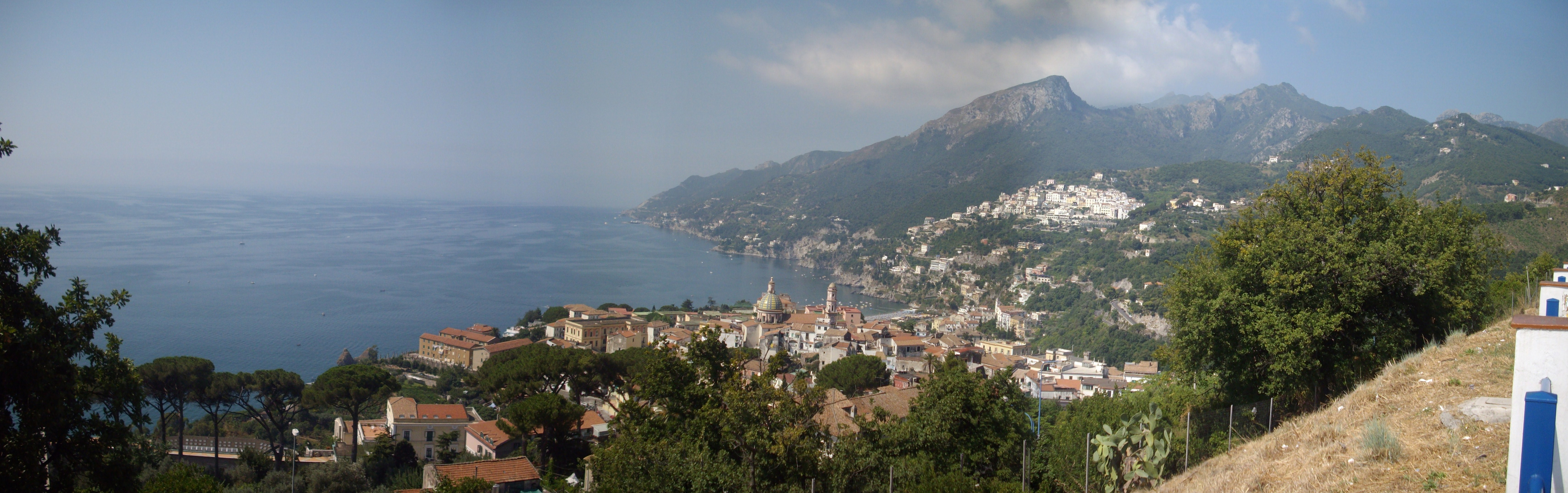 View of Amalfitan coast